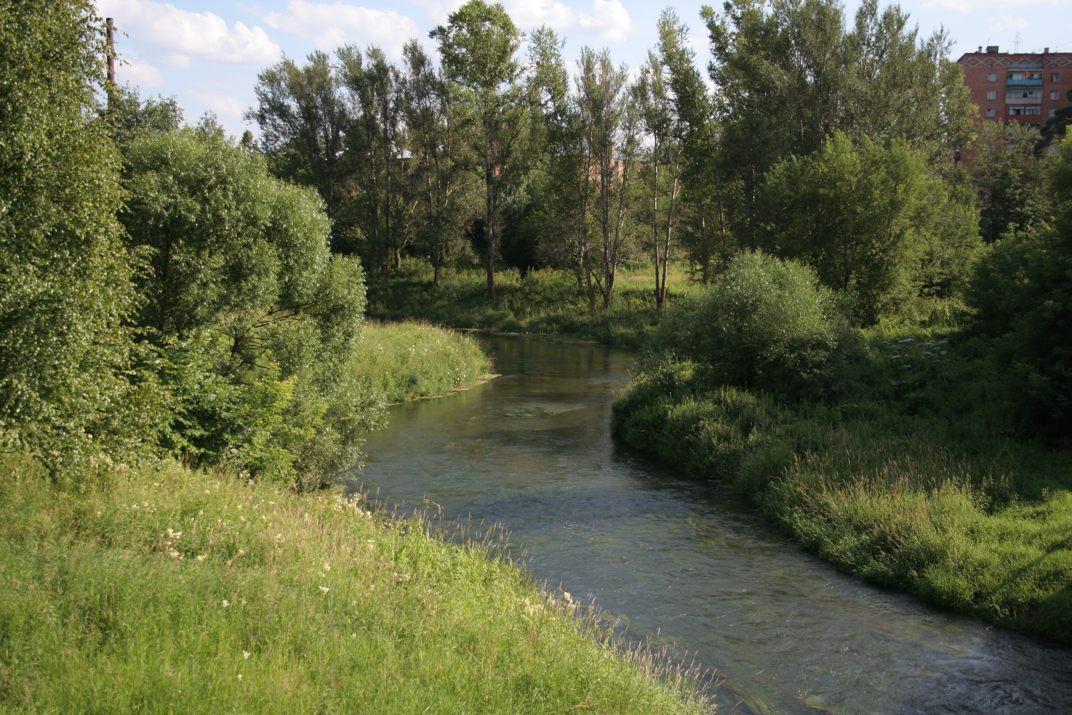 Vorya River in Krasnoarmeysk, Moscow Oblast, Russia